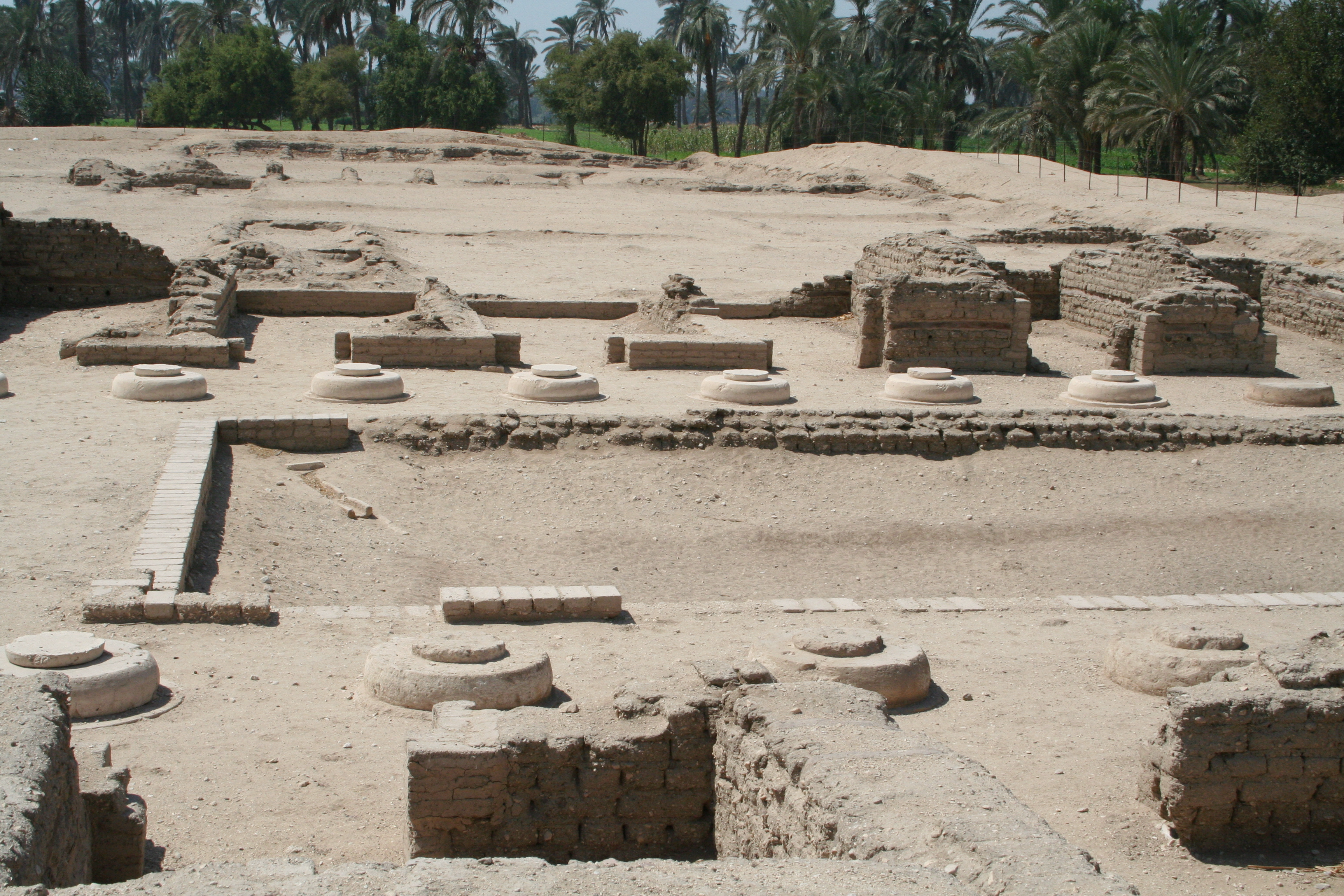 North Palace at Tell el-Amarna